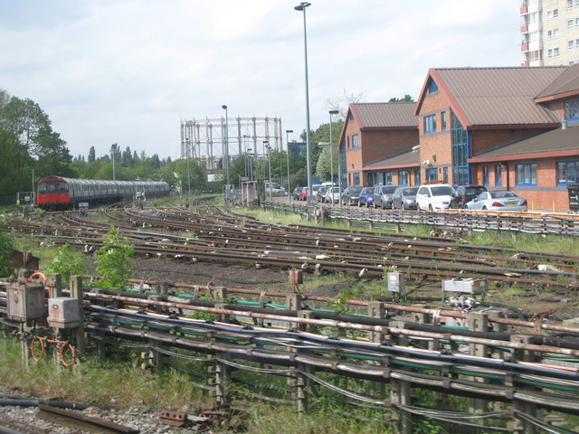 Tube sidings south of Arnos Grove station